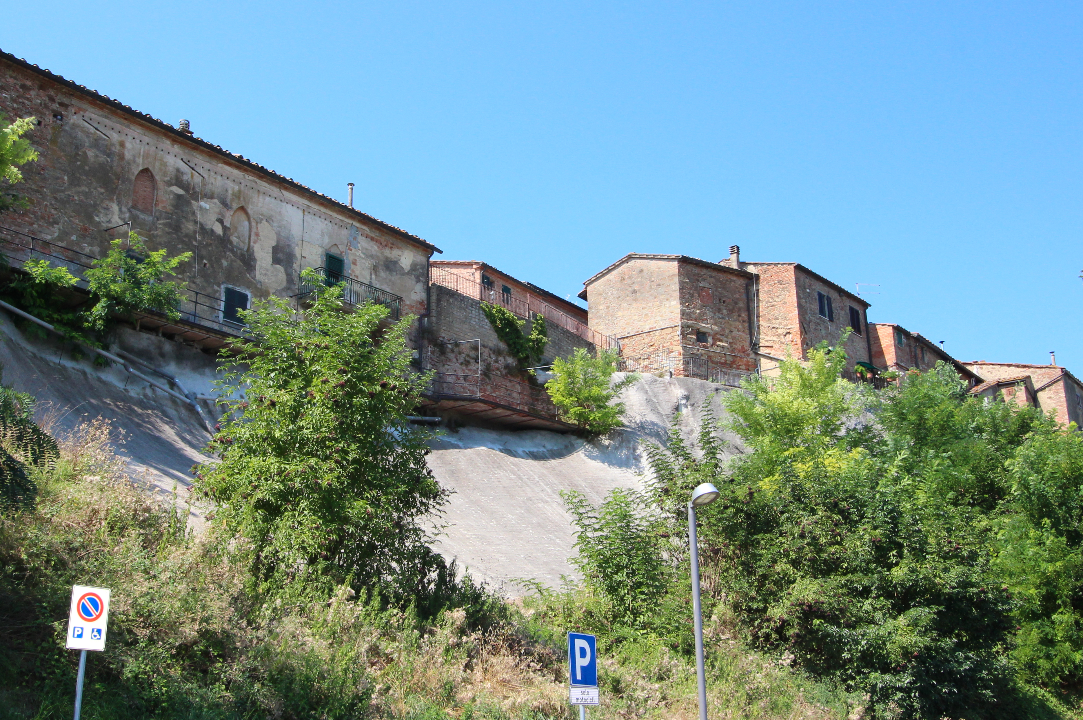 Fabbrica, hamlet of Peccioli, Province of Pisa, Tuscany, Italy